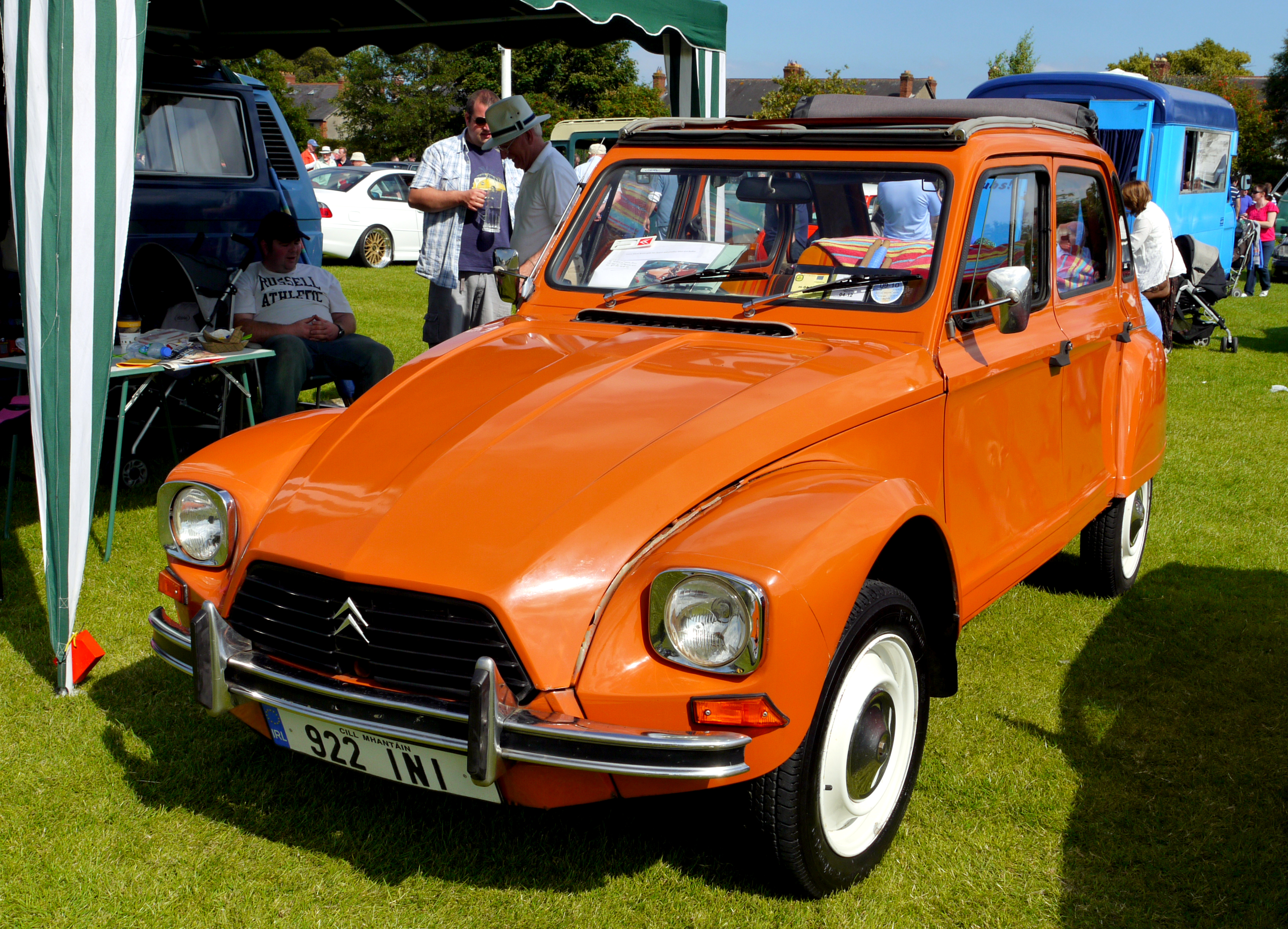 1982 Citroën Dyane.